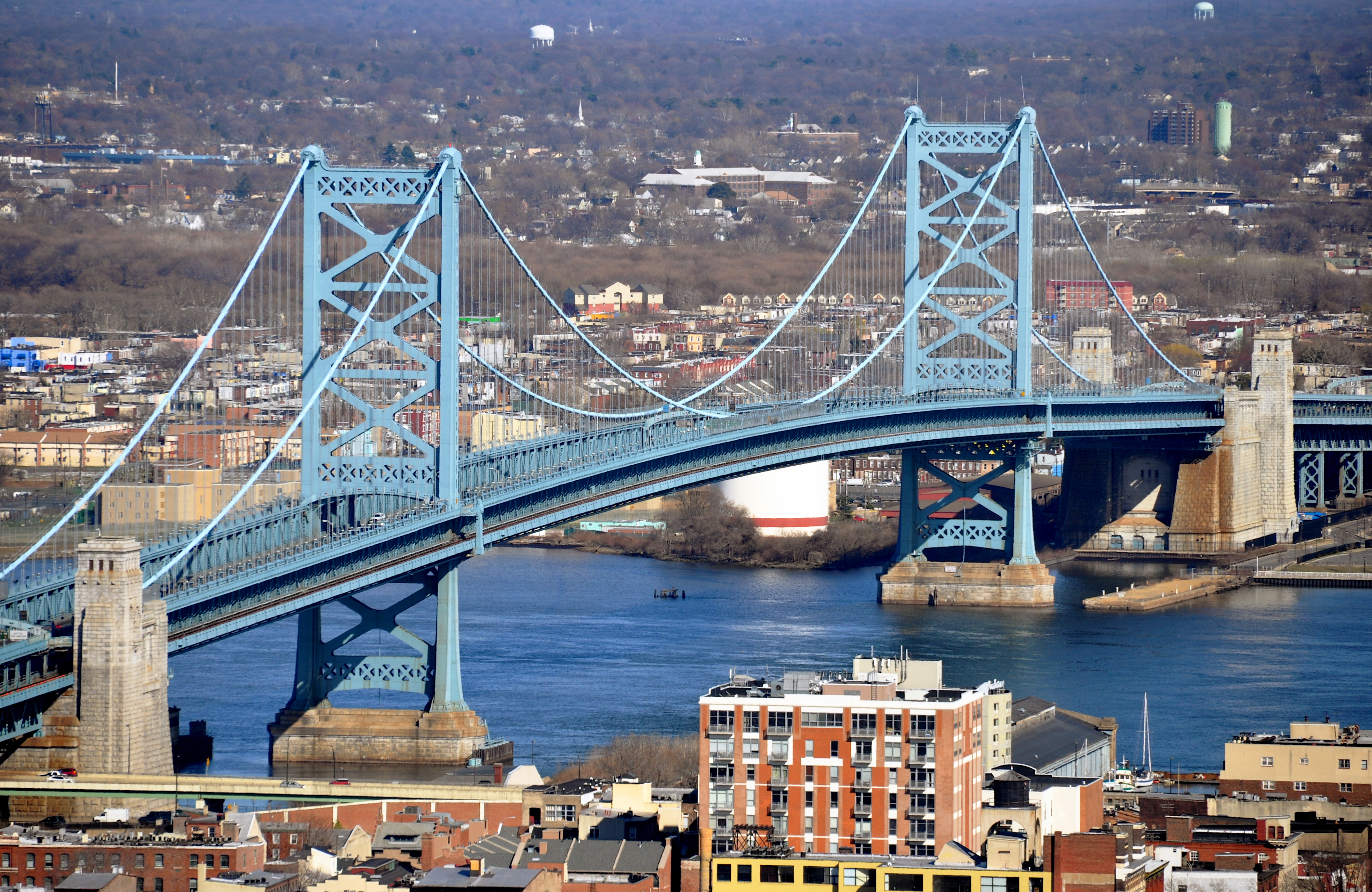 The Benjamin Franklin Bridge is a suspension bridge across the Delaware River connecting Philadelphia, Pennsylvania and Camden, New Jersey. View is from Philadelphia City Hall tower.